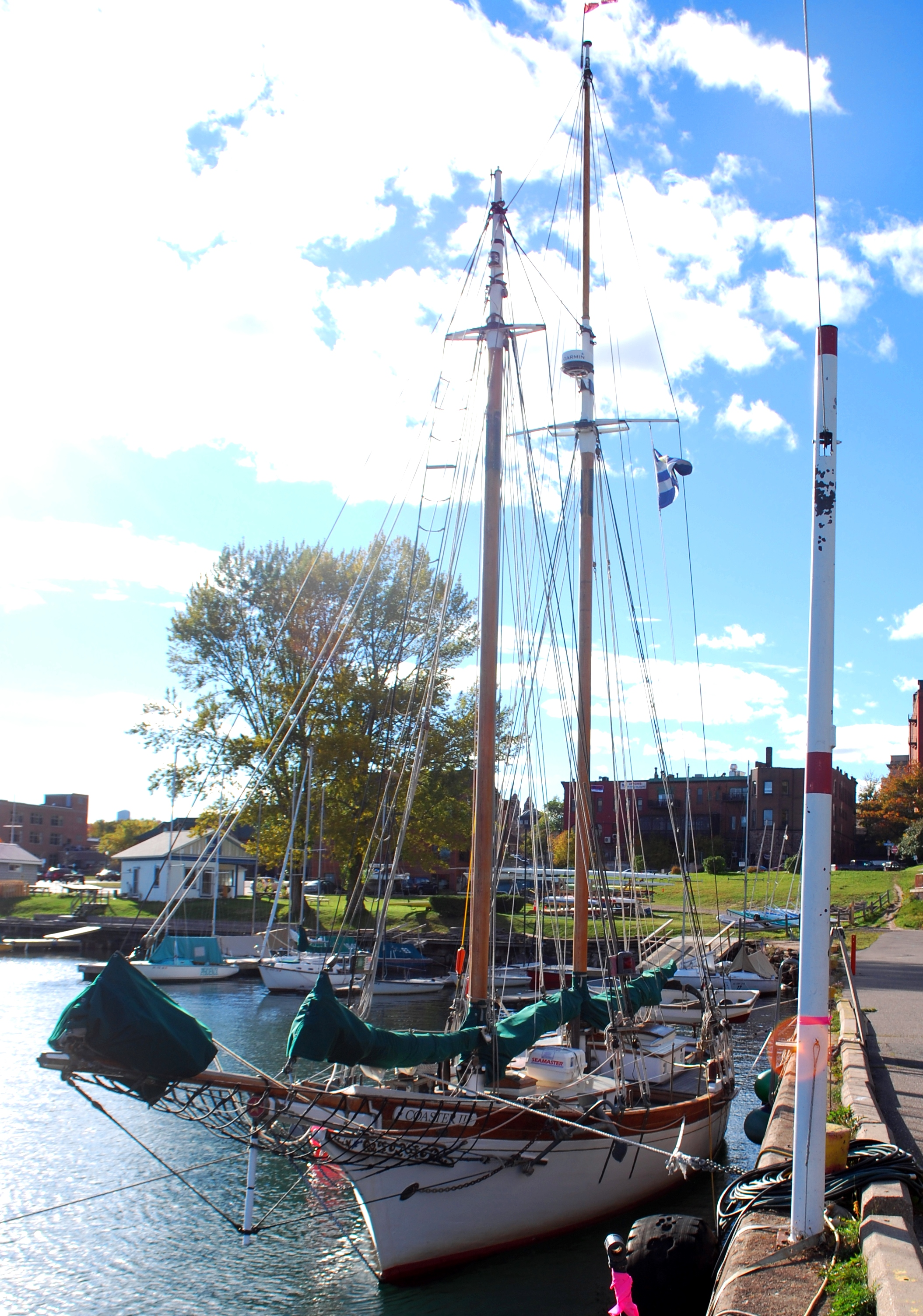 Yacht Coaster II moored in Marquette Harbor, 2012